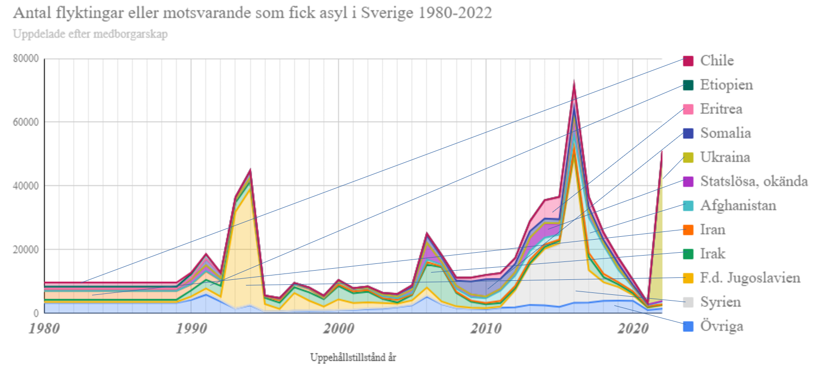 Statistics of the citizenship of refugees in Sweden over time, between 1980 and 2018, for the most common original countries of citizenship. Stacked area plot showing the number of residence permits granted per year. For the period 2015-2014, decisions after the third instance are presented, including granted permits according to the Geneva Convention, to warlords, to de facto refugees, for protection needs, for humanitarian reasons, to quota refugees, according to temporary law, with time-limited and previously time-limited permits and with impediments to enforcement. For the period 2015-2018, only the decision in the first instance is presented, including granted refugees and Dublin. For the period 1980-1989, the values are averaged. The most common citizenships totally during history are shown in the bottom. Data source: Migrationsverket: "Beviljade uppehållstillstånd asyl 1980–2014", "Avgjorda asylärenden 2015", "2016", "2017", "2018".